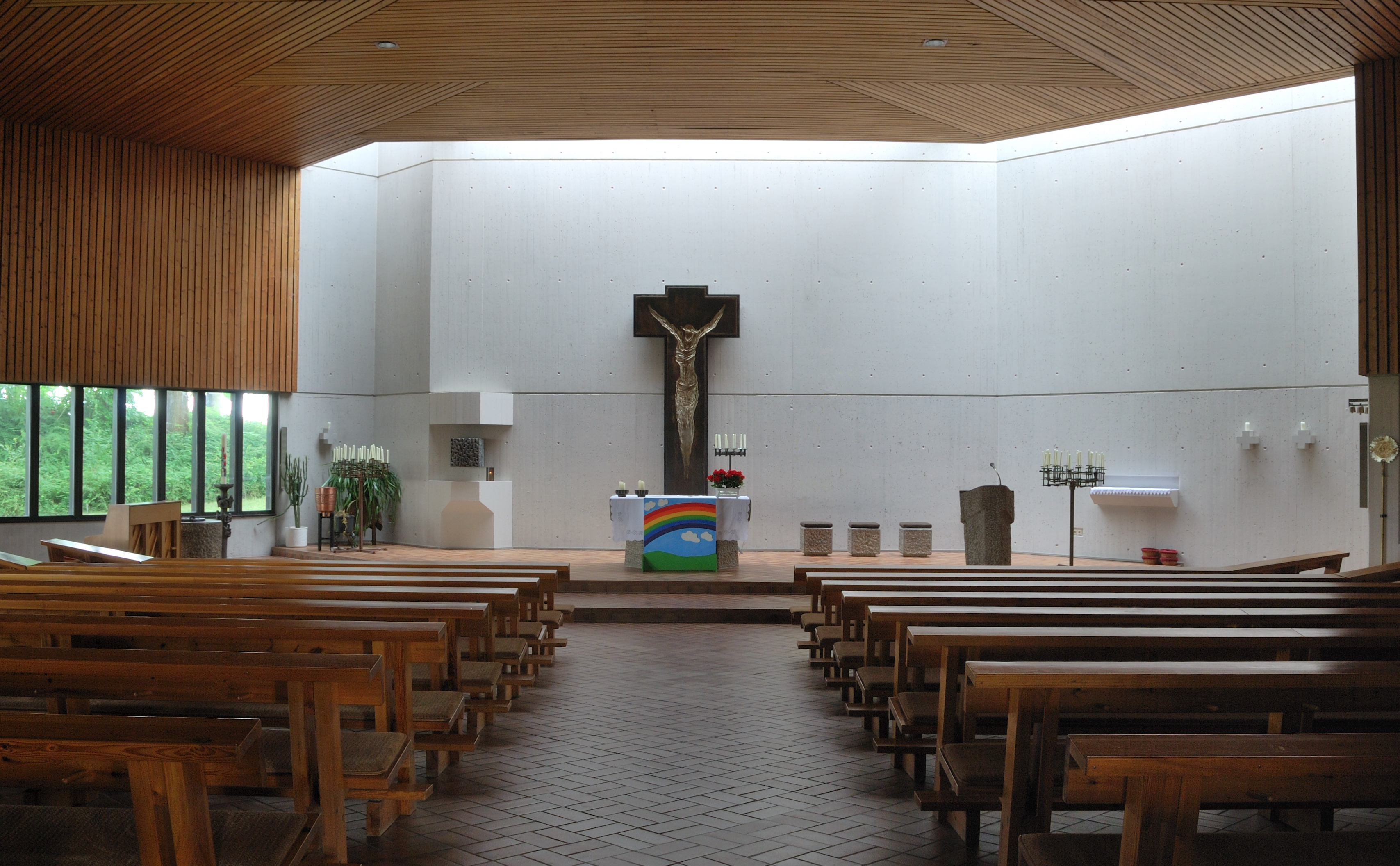 Catholic Church Holy Trinity in Hirschlanden, Baden-Württemberg, Germany.